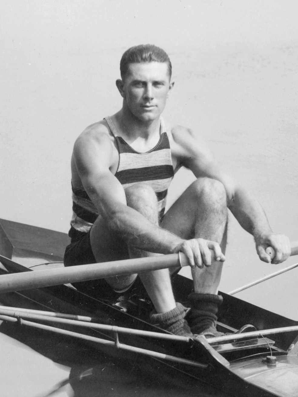 John B. Kelly (1889-1960), in his shell on the Schuylkill River